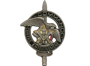 Badge of commando training center in the 26th Infantry Regiment (France).